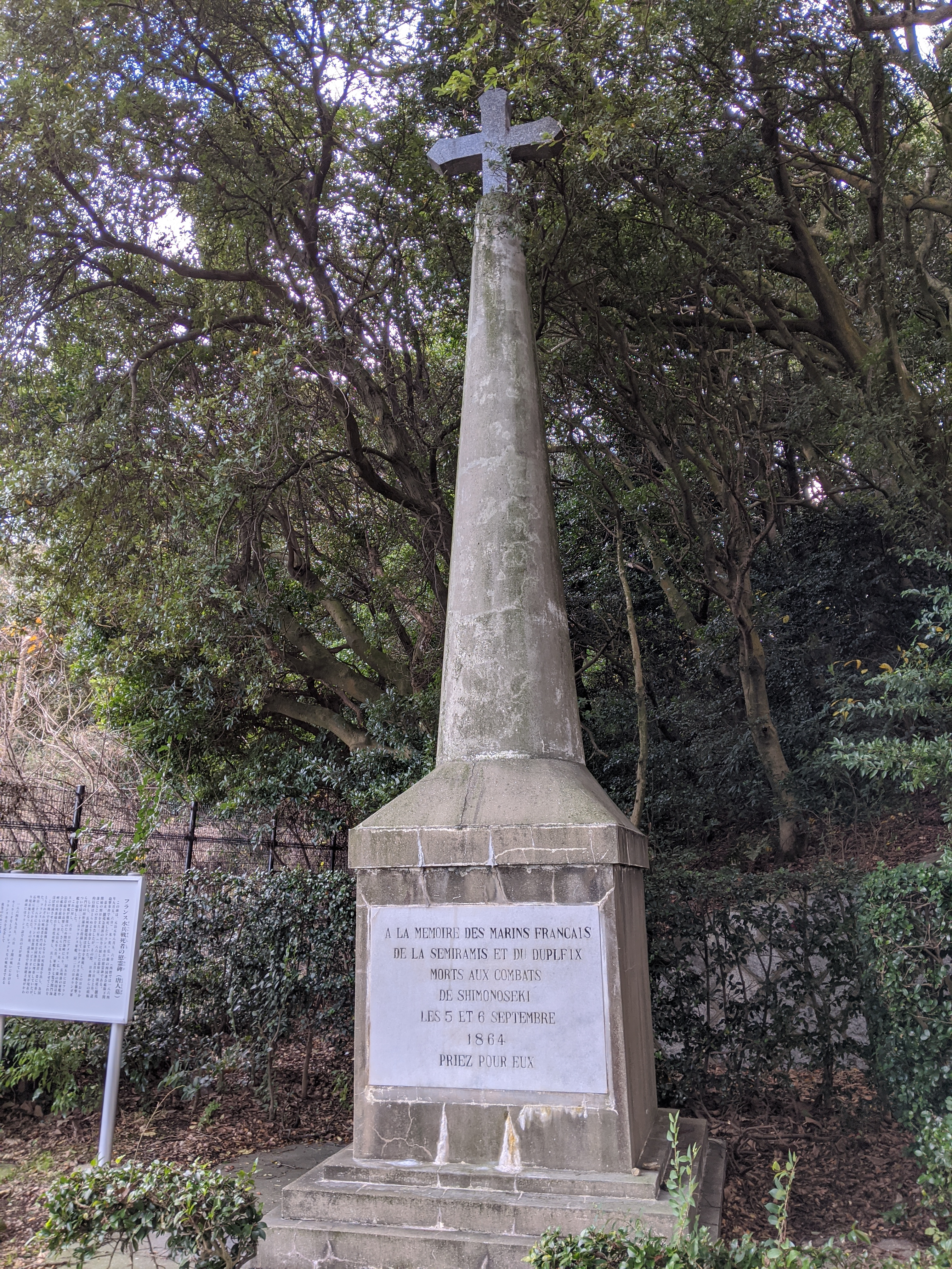 A memorial of French sailors who were killed during the battle of Shimonoseki campaign on September 5–6, 1864. Located in Mekari Park, Moji-ku, Kitakyushu City, Japan. The description reads "A LA MEMOIRE DES MARINS FRANCAIS DE LA SEMIRAMIS ET DU DUPLFIX MORTS AUX COMBATS DE SHIMONOSEKI LES 5 ET 6 SEPTEMBRE 1864 PRIEZ POUR EUX" in French.